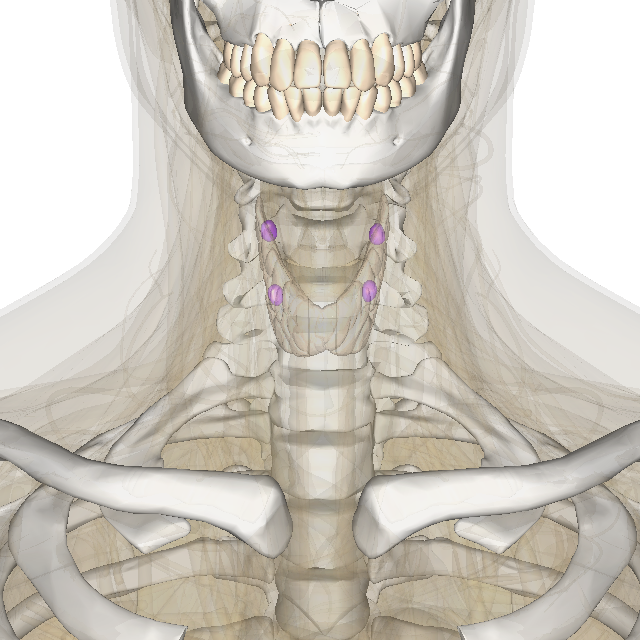 Image showing thyroid/parathyroid in color against skeleton and various organs.